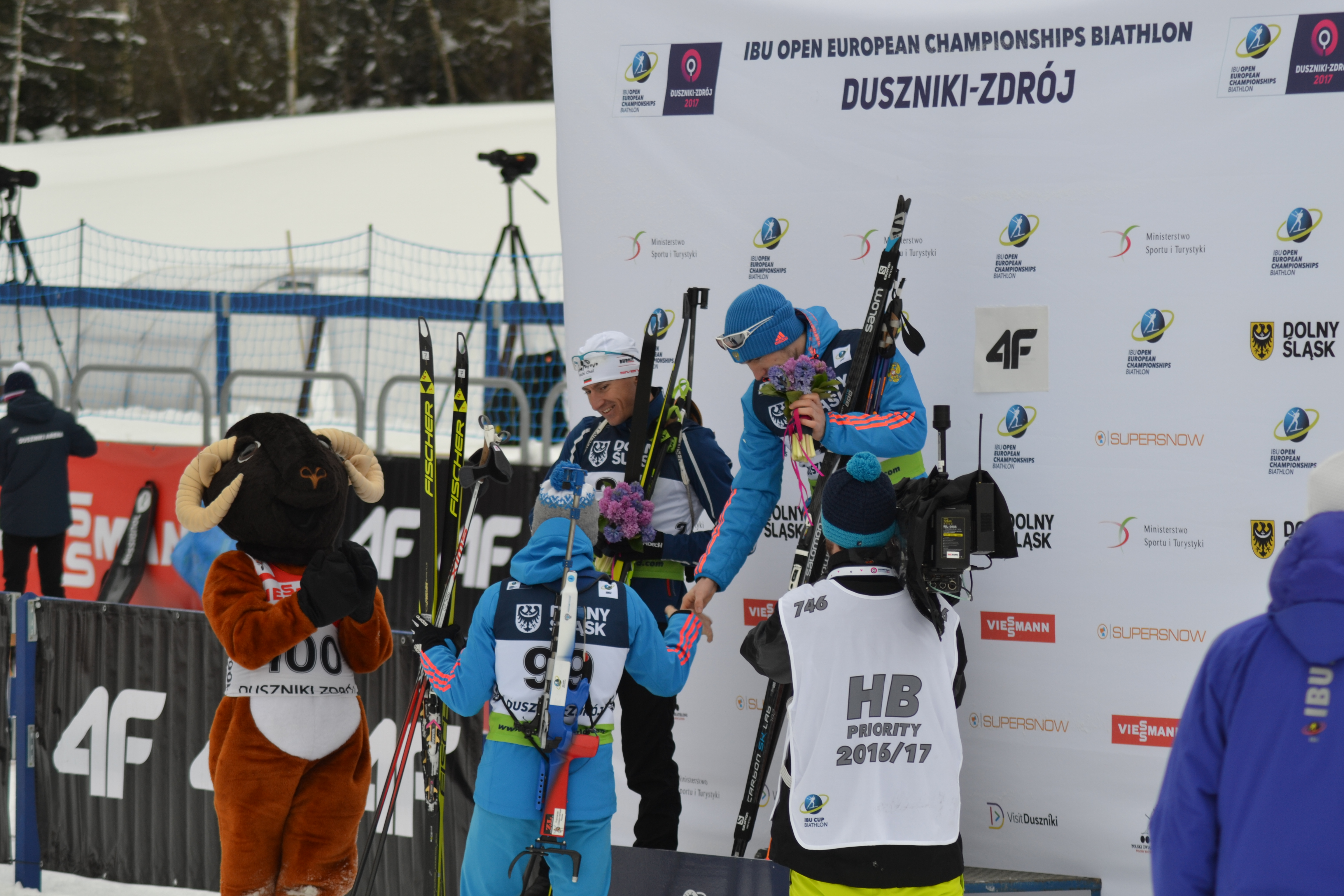 Open European Championships Biathlon 2017, Individual Men's race, held on January 25th.